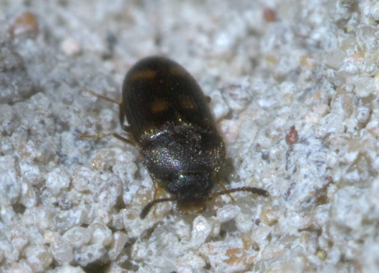 Litargus sexpunctatus, Family: Hairy Fungus Beetles, ID Confidence: 89